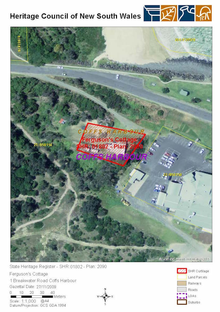 Ferguson's Cottage: SHR Plan 2090